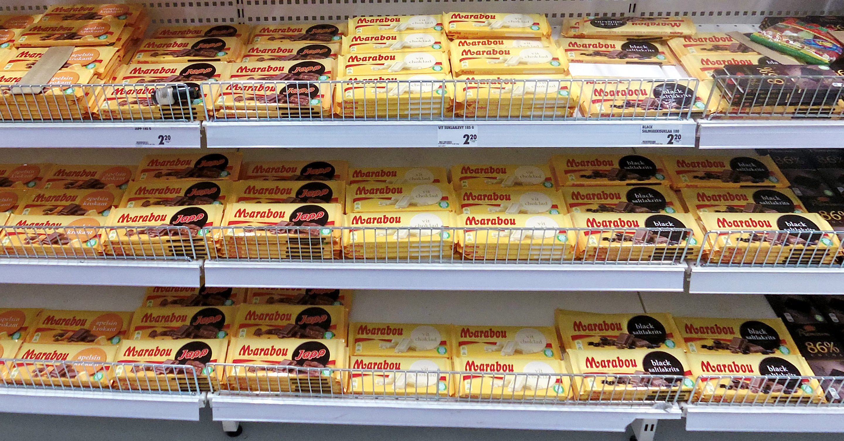 Marabou chocolate bars in the Veljekset Keskinen store in Tuuri, Finland.